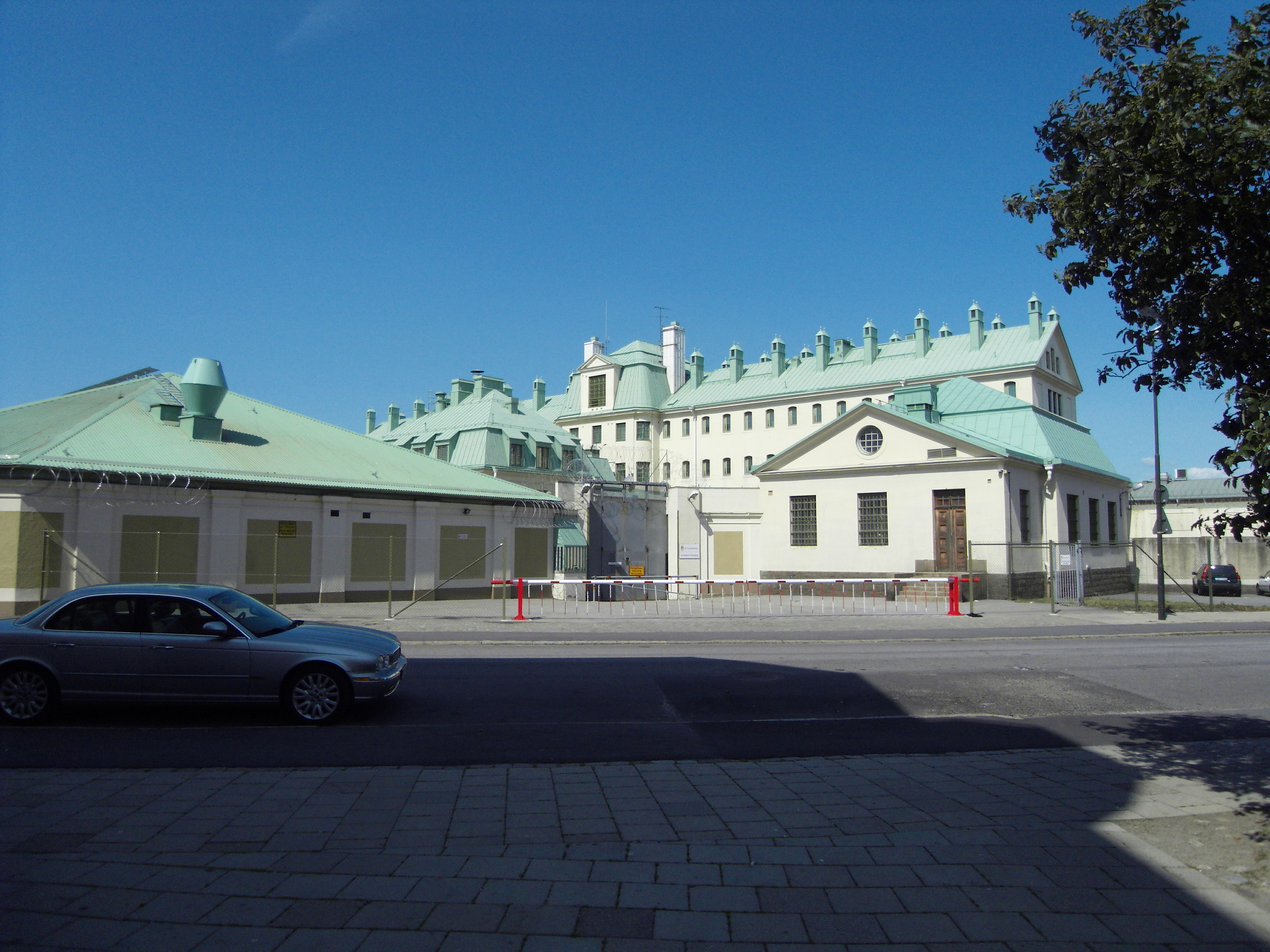 Anstalten Malmö Kirseberg, also called Kirsebergsanstalten, is a prison located in the city district Kirseberg in the city of Malmo.